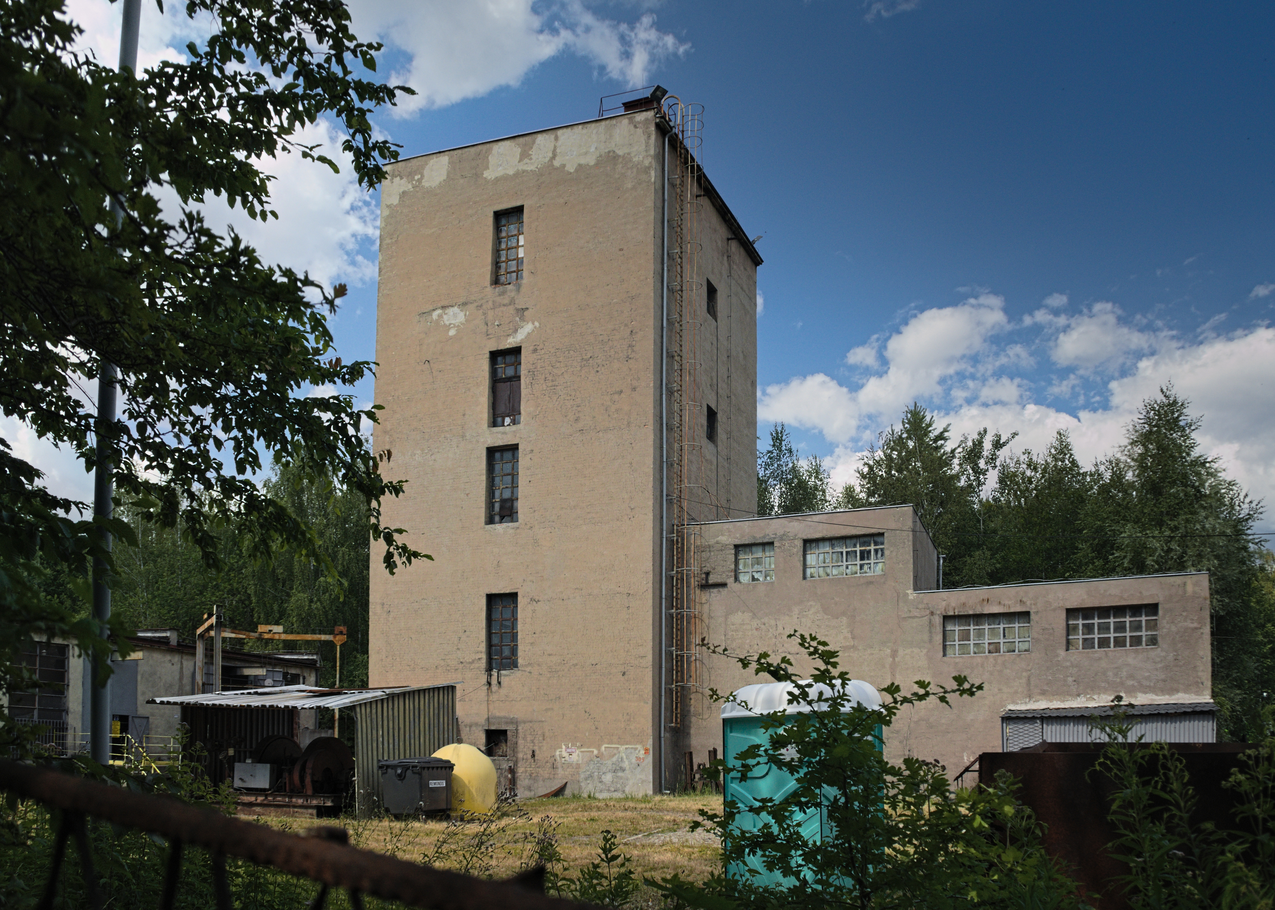 buildings of Ignacy shaft in Zabrze-Rokitnica (ex former Miechowice coal mine)